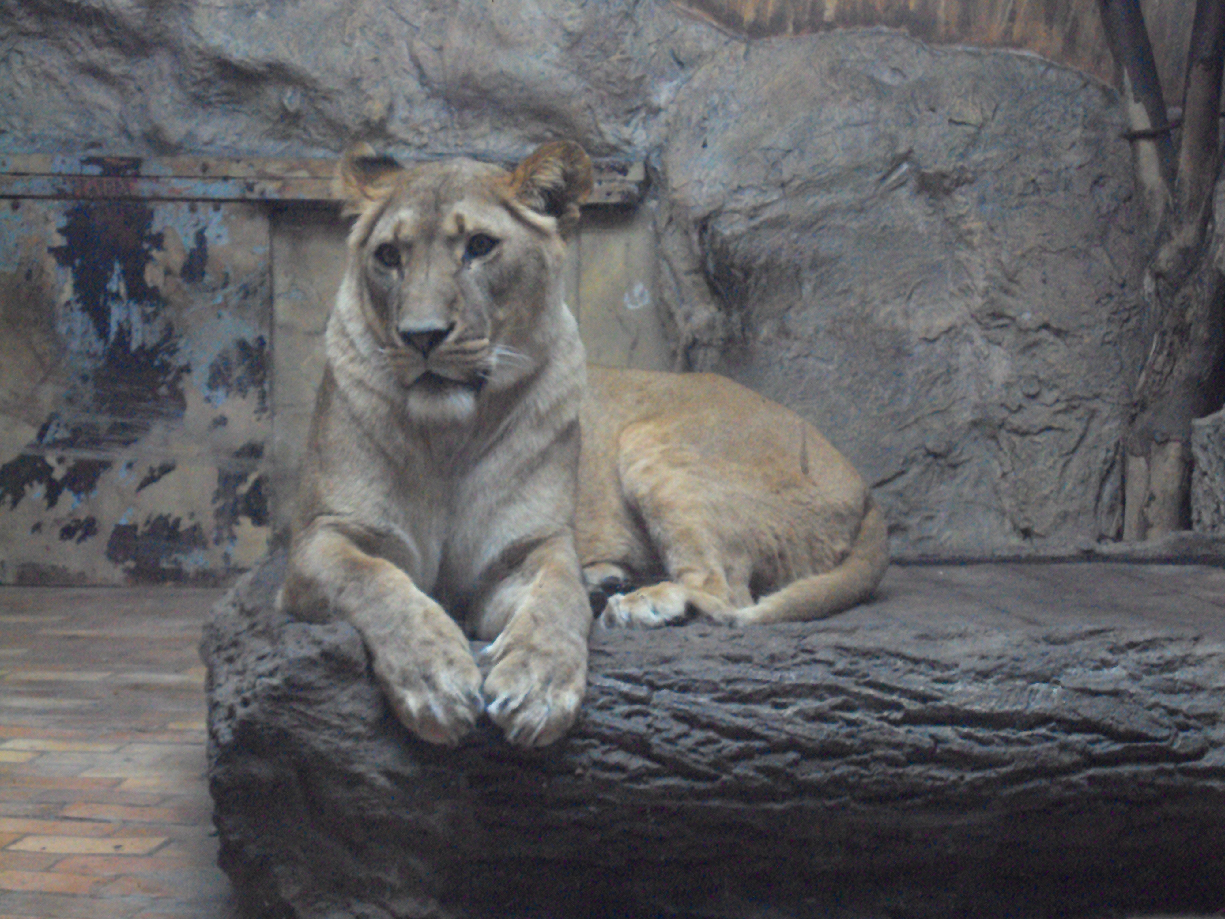 Sofia Zoo - Lion